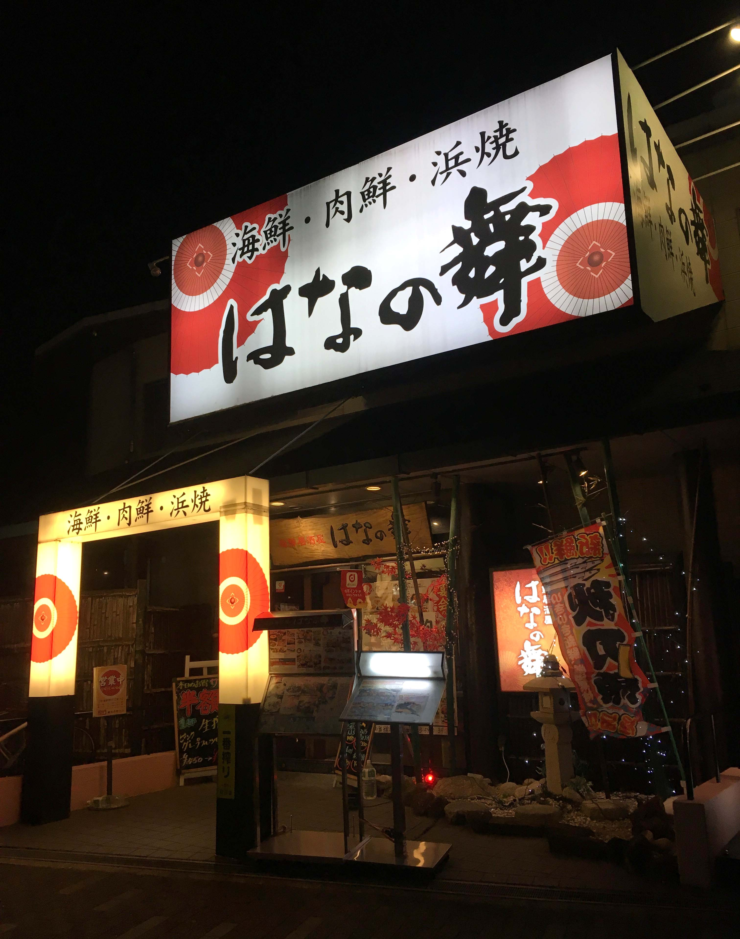 Hana-no-mai (Japanese bar chain) NerimaTakanodai branch (Tokyo, Japan)